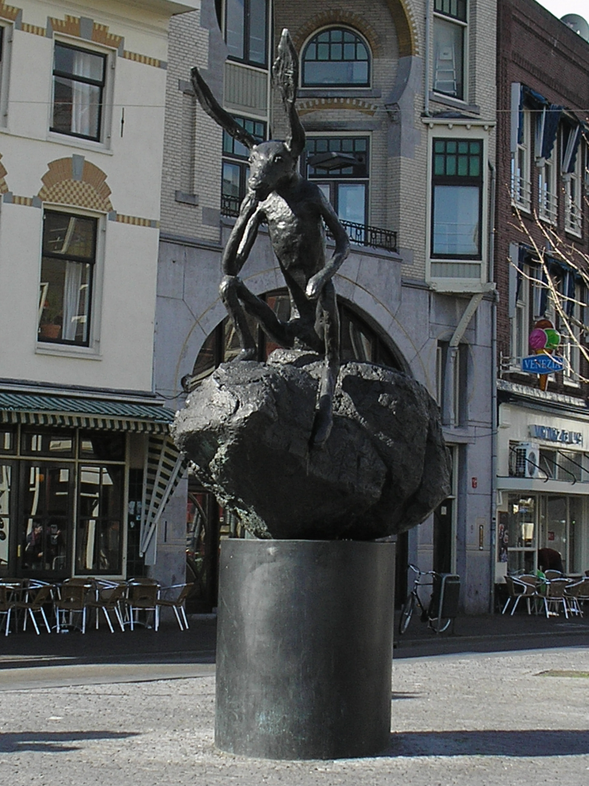 A statue of a hare in the pose of Rodin's Thinker, Neude square, Utrecht